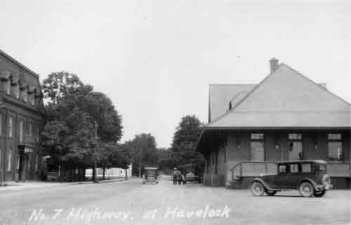 photo of the Havelock CPR rail station, circa 1920.